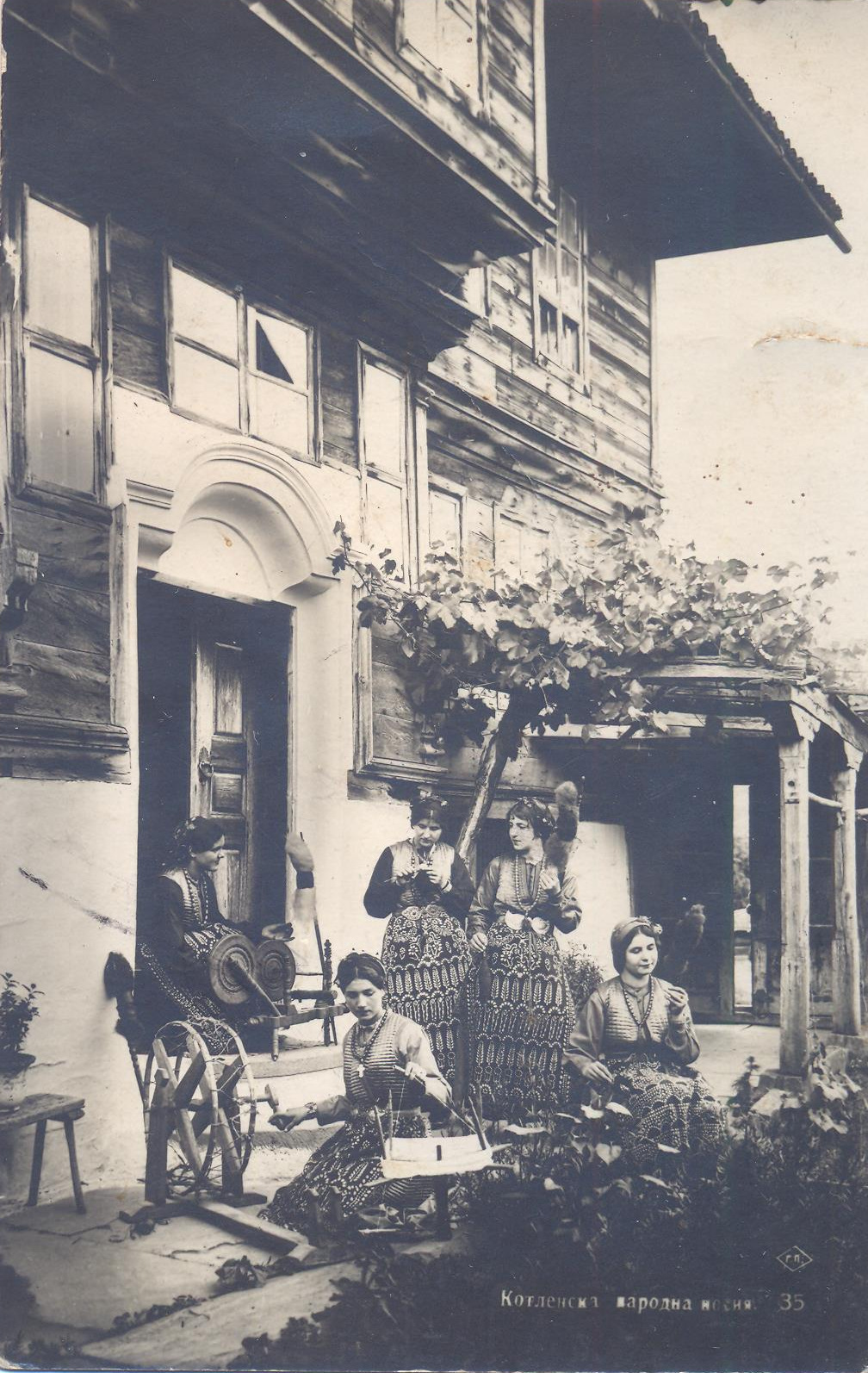 Postcard from Kotel, Bulgaria